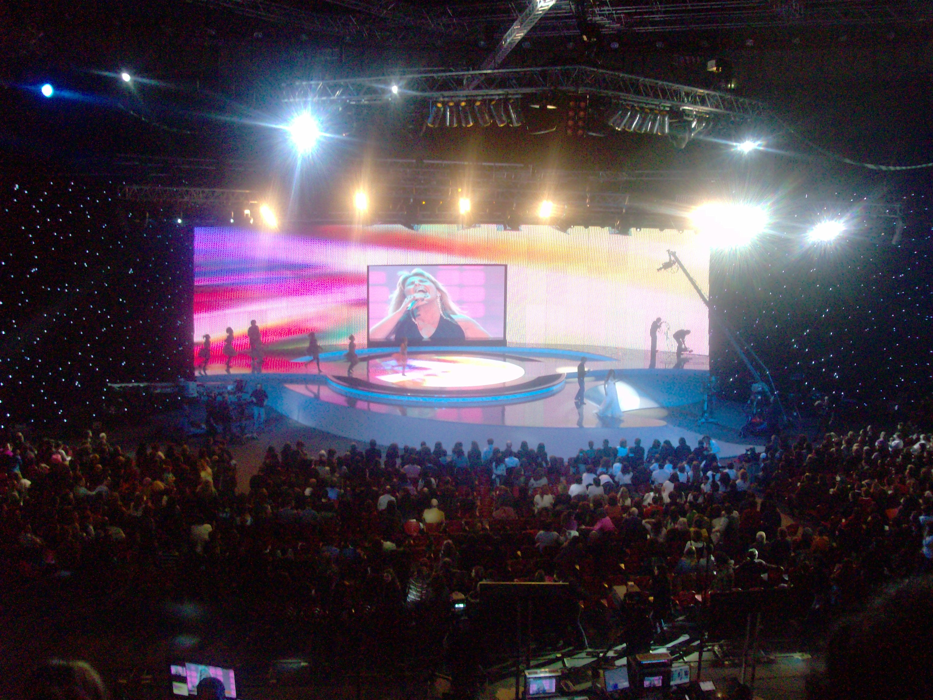 Festival RTP da Canção 2010 1st semifinal